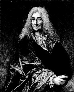 Portrait of French actor Michel Baron (1653-1729) by François Courboin (1865-1926)